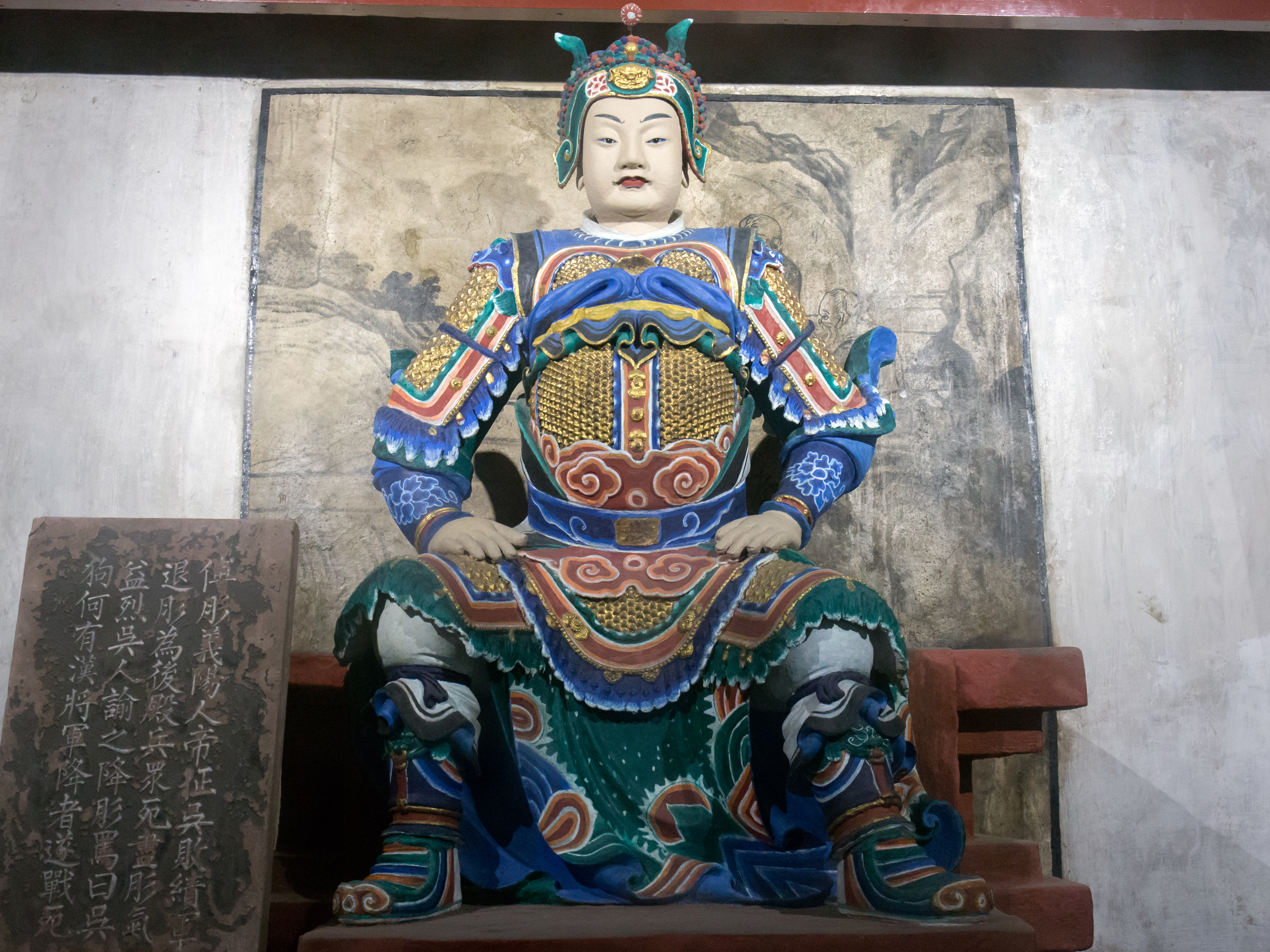 Fu Rong (傅肜)